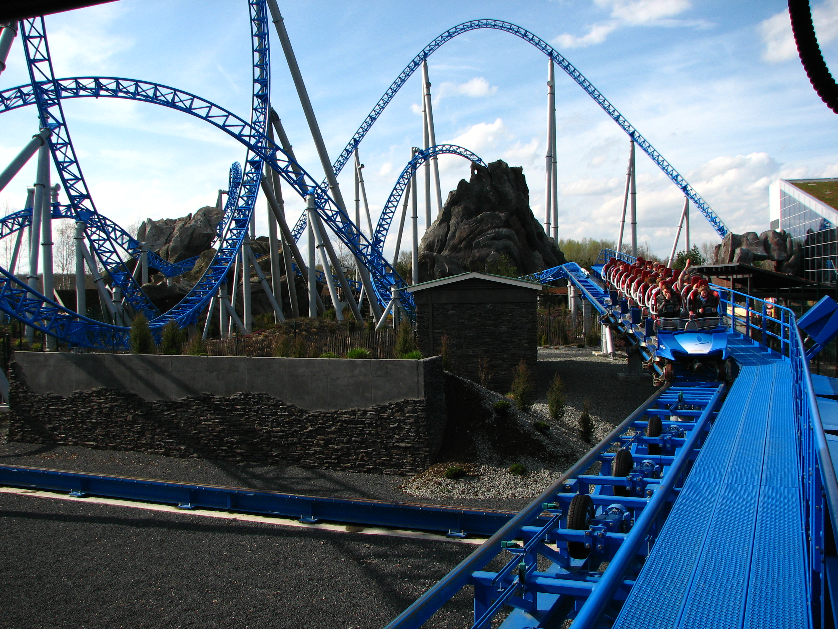 Blue Fire Megacoaster, Europa-Park, Rust, Baden-Württemberg, Germany.